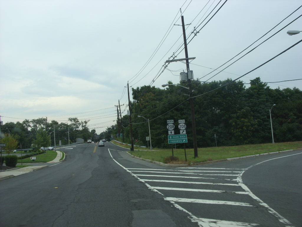 County Route 507 - New Jersey at the interchange with New Jersey Route 208 in Fair Lawn, New Jersey.